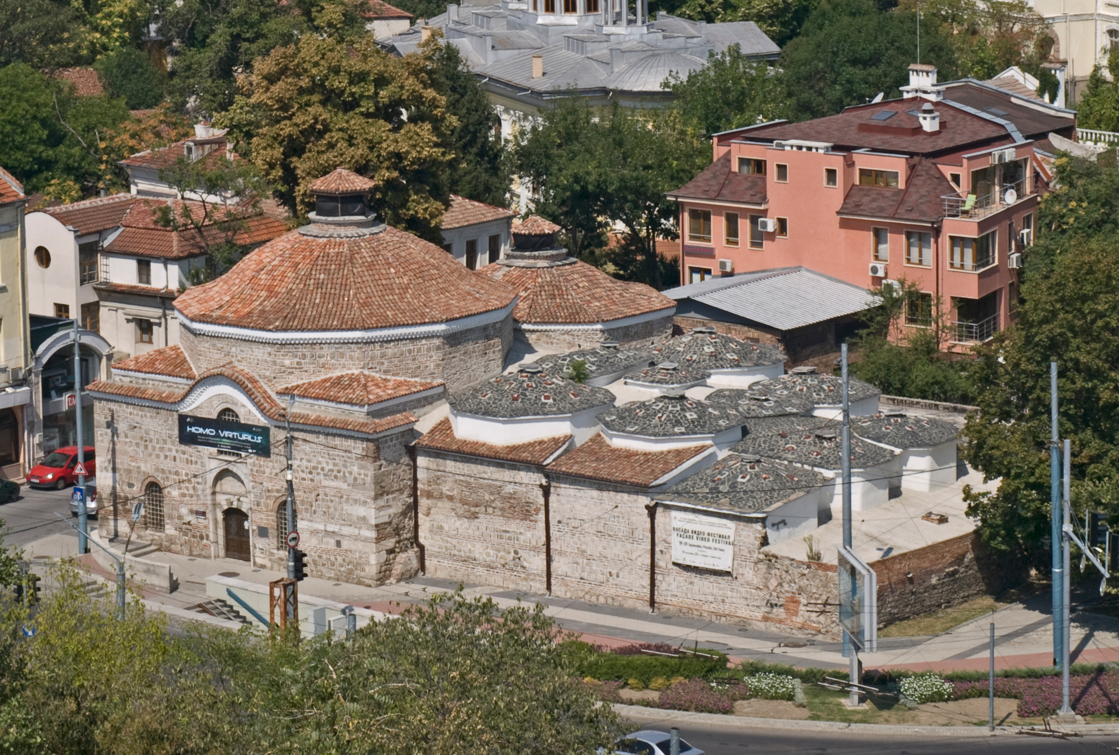 Ancient baths, currently art center, Plovdiv, from Nebet Tepe